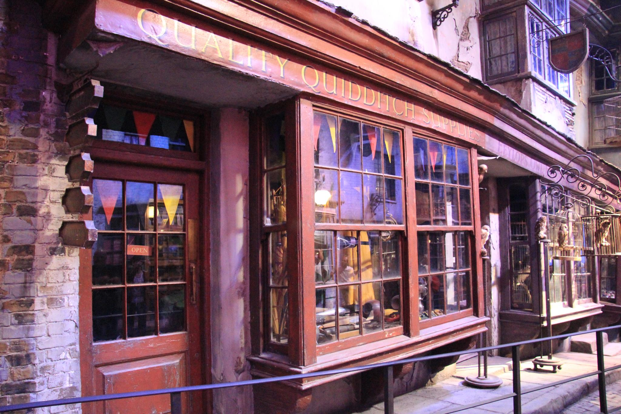 Warner Bros. Studio Tour London: The Making of Harry Potter.